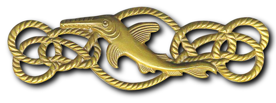 Battle Clasp of Small Combat Units